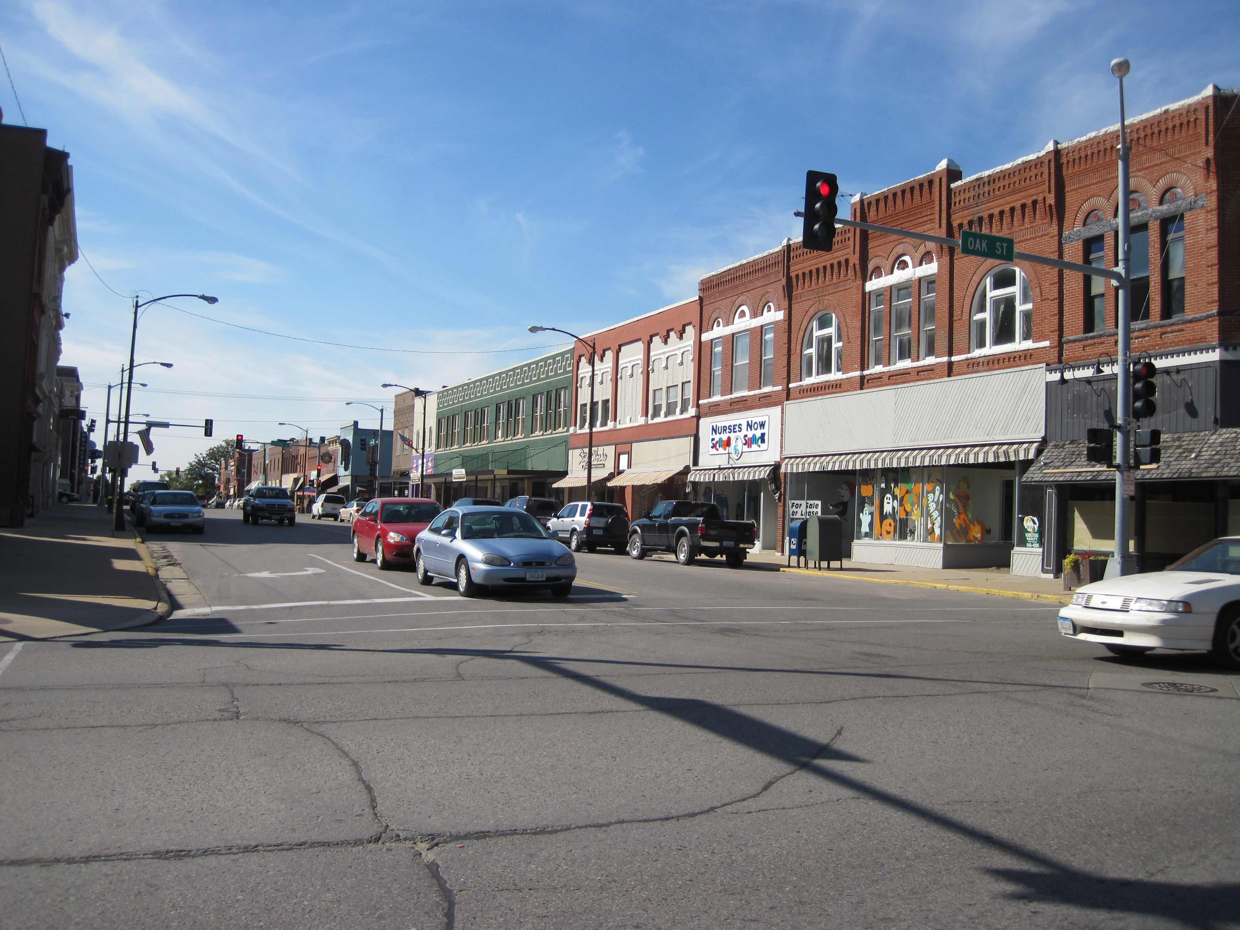 Iowa Falls Bill Whittaker (talk) 13:01, 2 October 2009 (UTC)